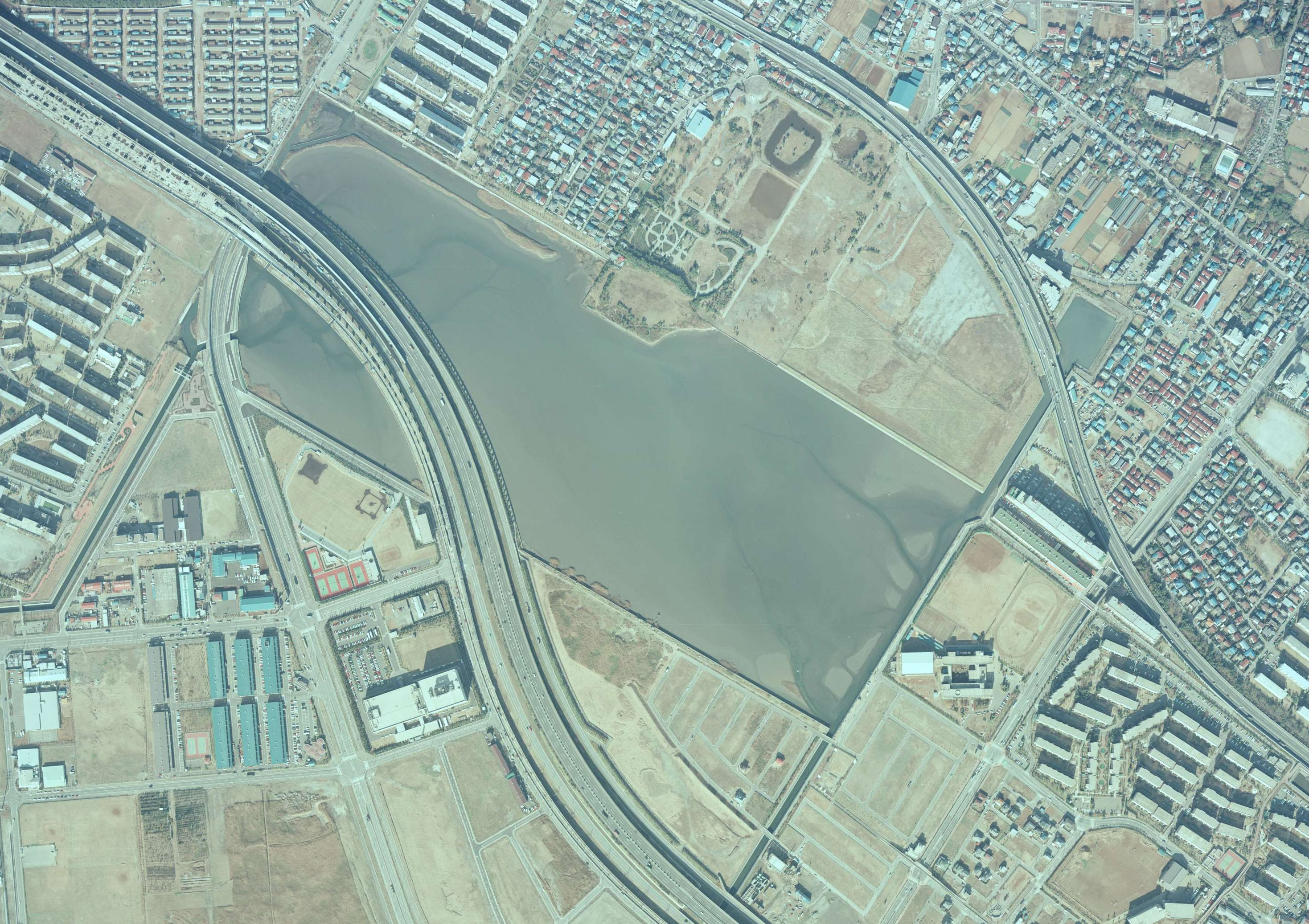 Around Yatsu-Higata taken in 1984